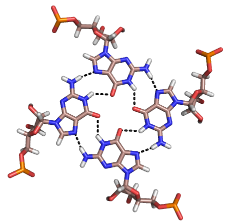 RNA Quadruplex